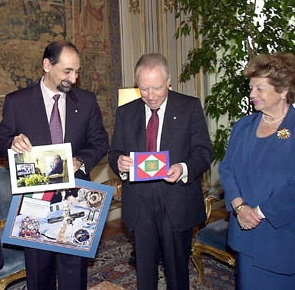 Umberto Guidoni with President Carlo Azeglio Ciampi (May 2001)